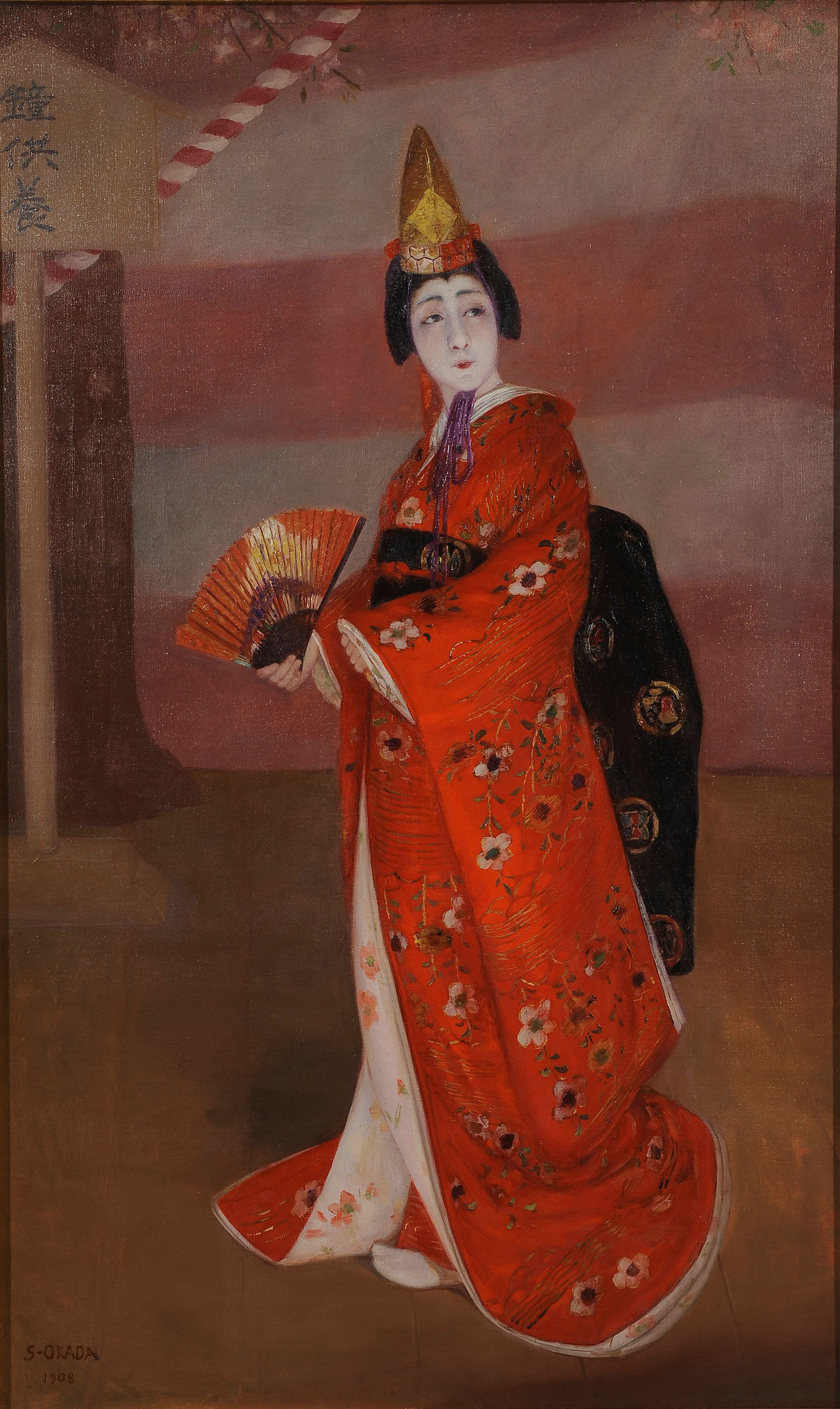 Dojoji (Nakamura Shikan V [Nakamura Utaemon V] in Dōjōji (A Maiden at Dōjōji)), by Okada Saburosuke, Kabuki-za, Tokyo, Japan